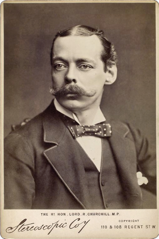 British politician, father of Winston Churchill.